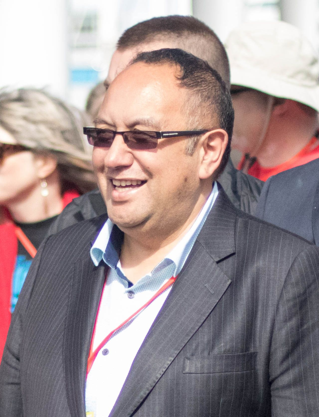 Adrian Rurawhe in October 2016